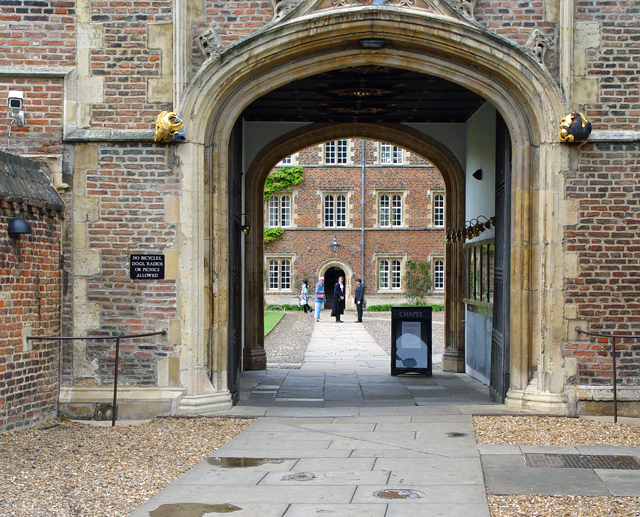 Jesus College, Cambridge This view is through the arched gateway into First Court.